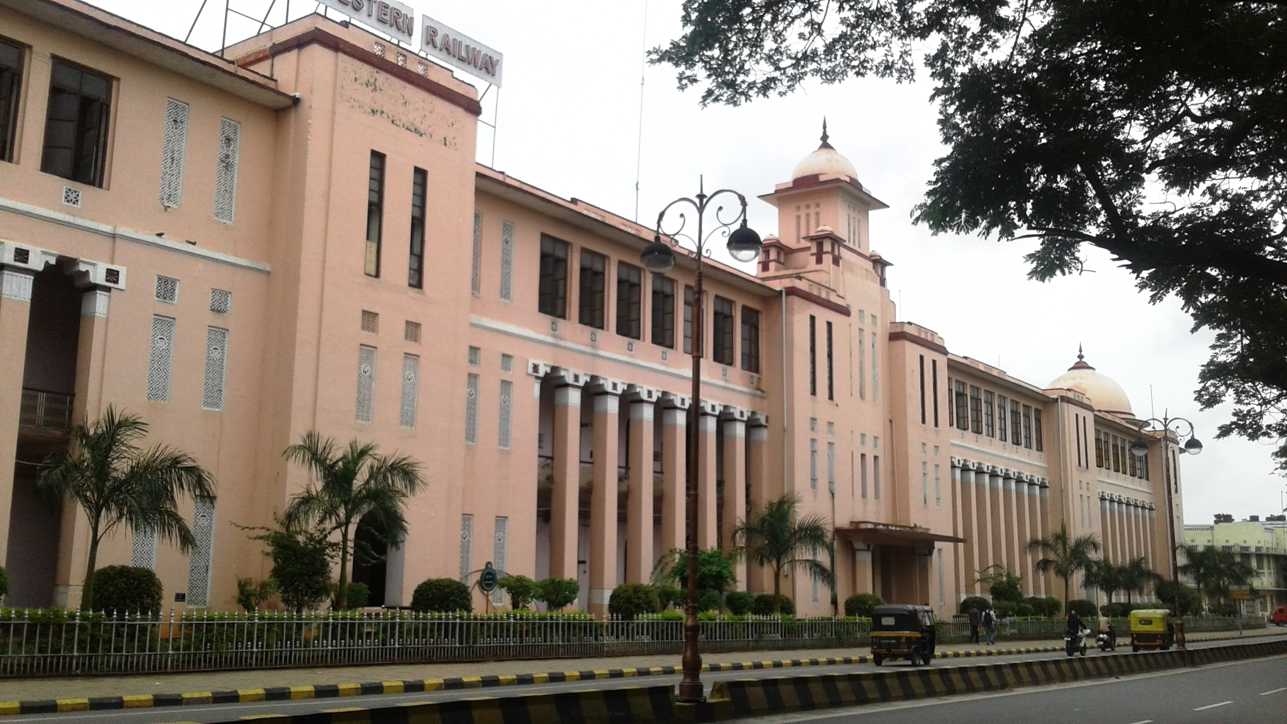 Karnataka state, India.